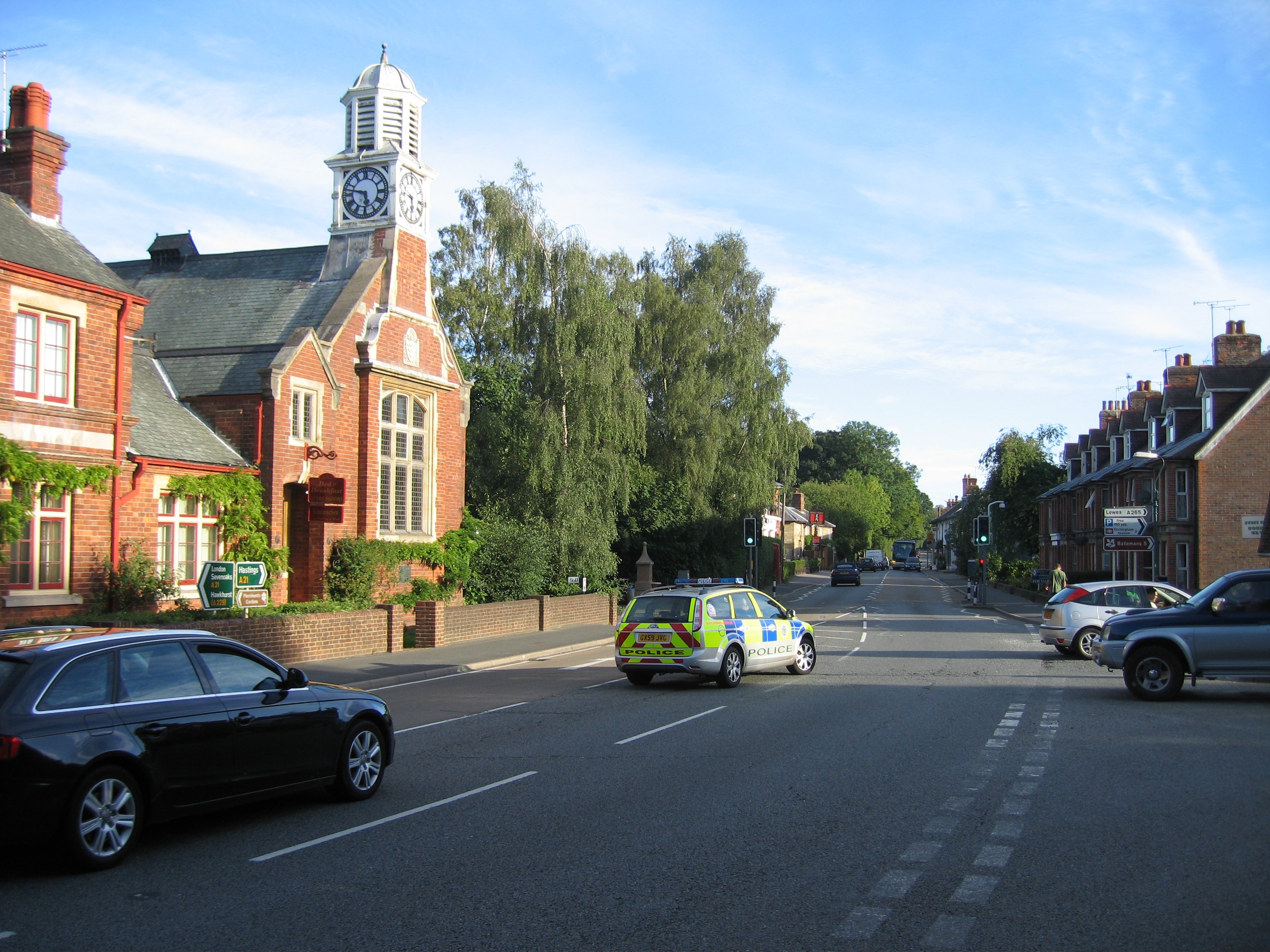 The A21 High Street in the village of Hurst Green, East Sussex, UK